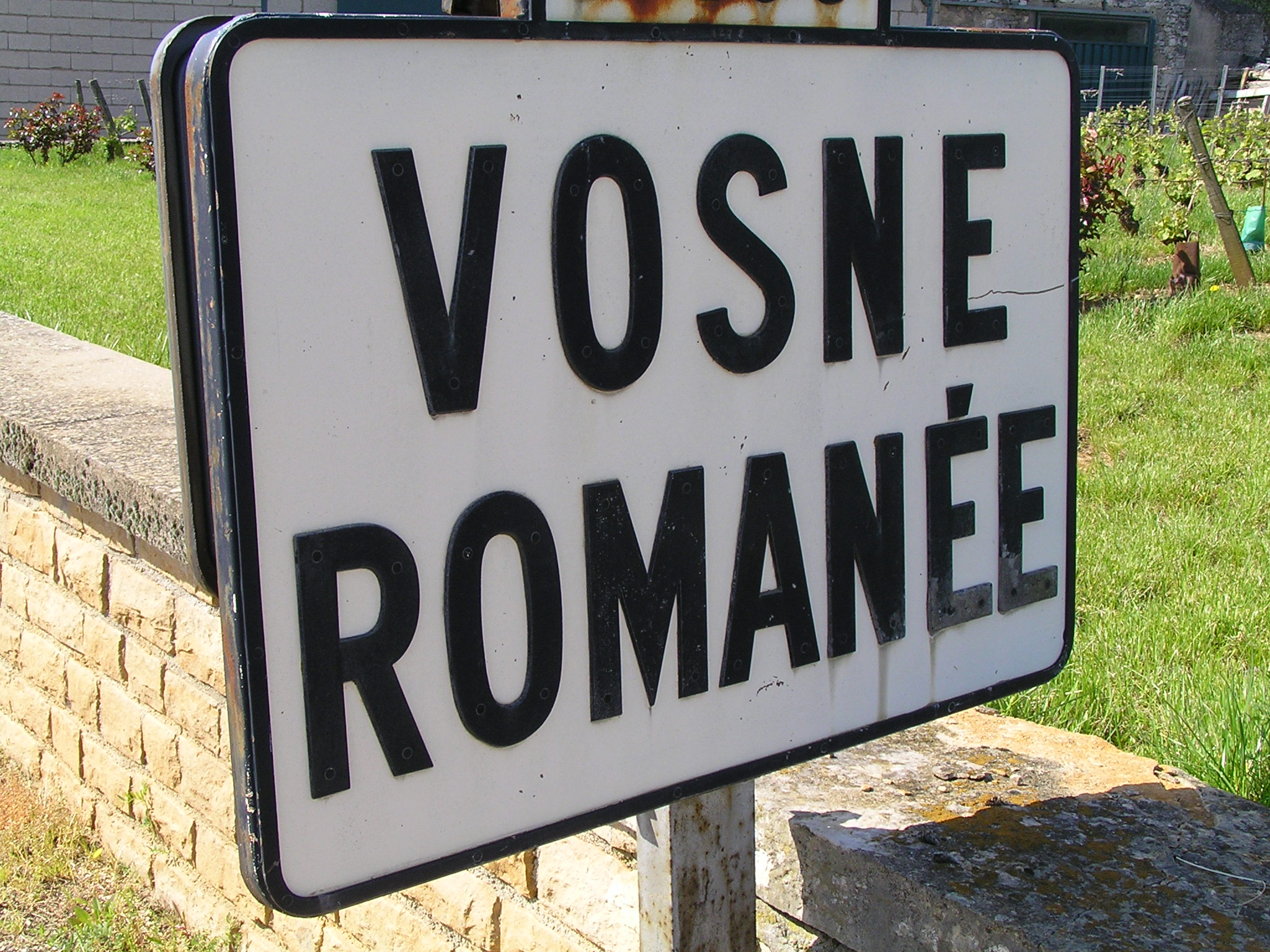 The sign marking the boundary of the village of Vosne-Romanée, Burgundy. Taken on the side of the RN74, May 2005. Photo by Gavin Sherry.